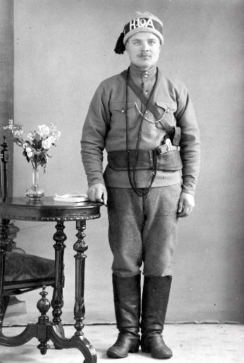 Finnish civil war red soldier